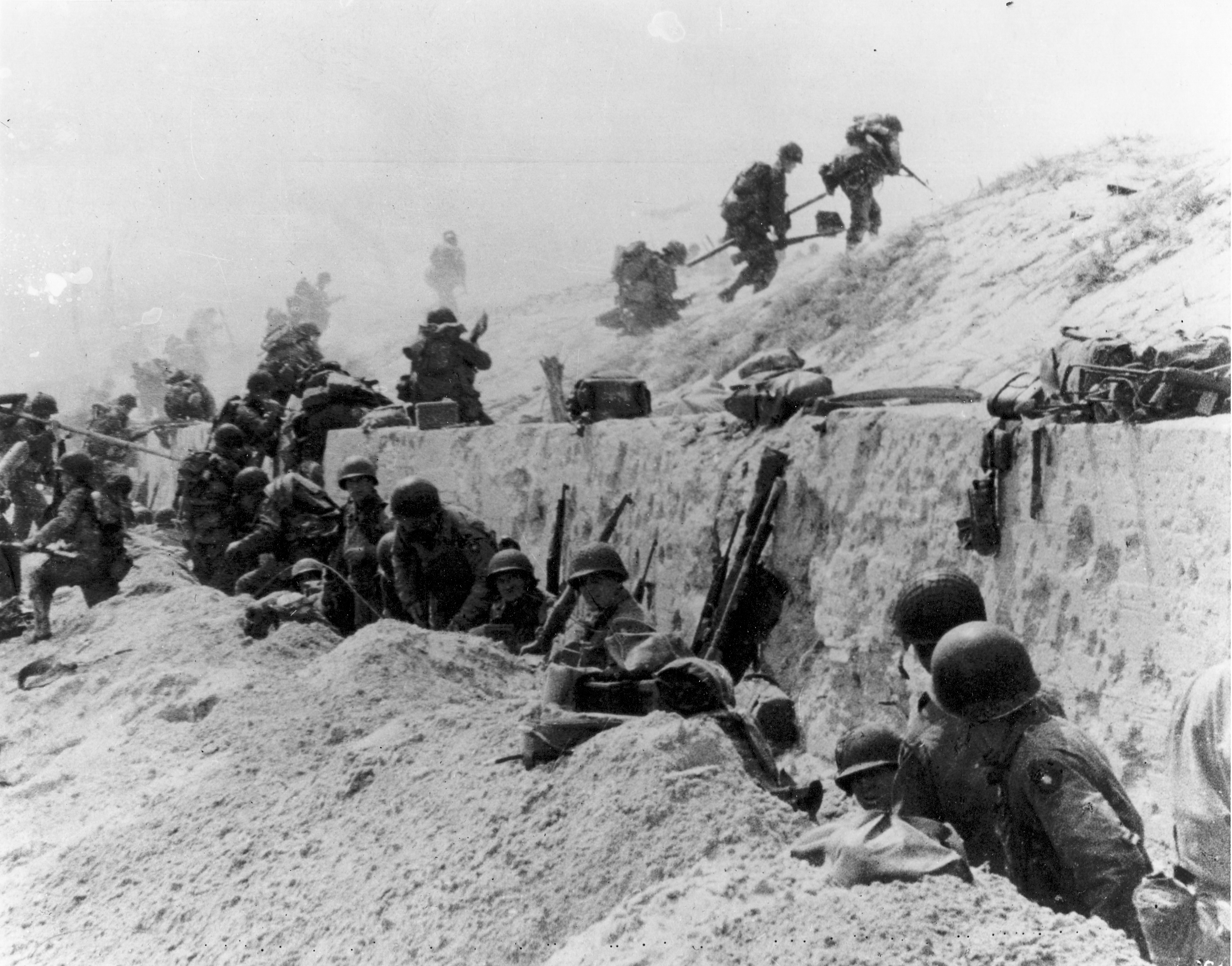 U.S. Soldiers of the 8th Infantry Regiment, 4th Infantry Division, move out over the seawall on Utah Beach after coming ashore. Other troops are resting behind the concrete wall.